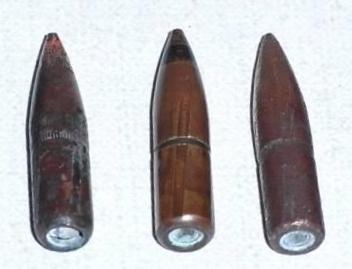 Bulletof the Japanese 7.62mm NATO reduced round for Howa Type 64 rifle. This object has collecting up from Training field in Japan late 1970's. Left/Tracer, Middle/AP, Right/FMJ